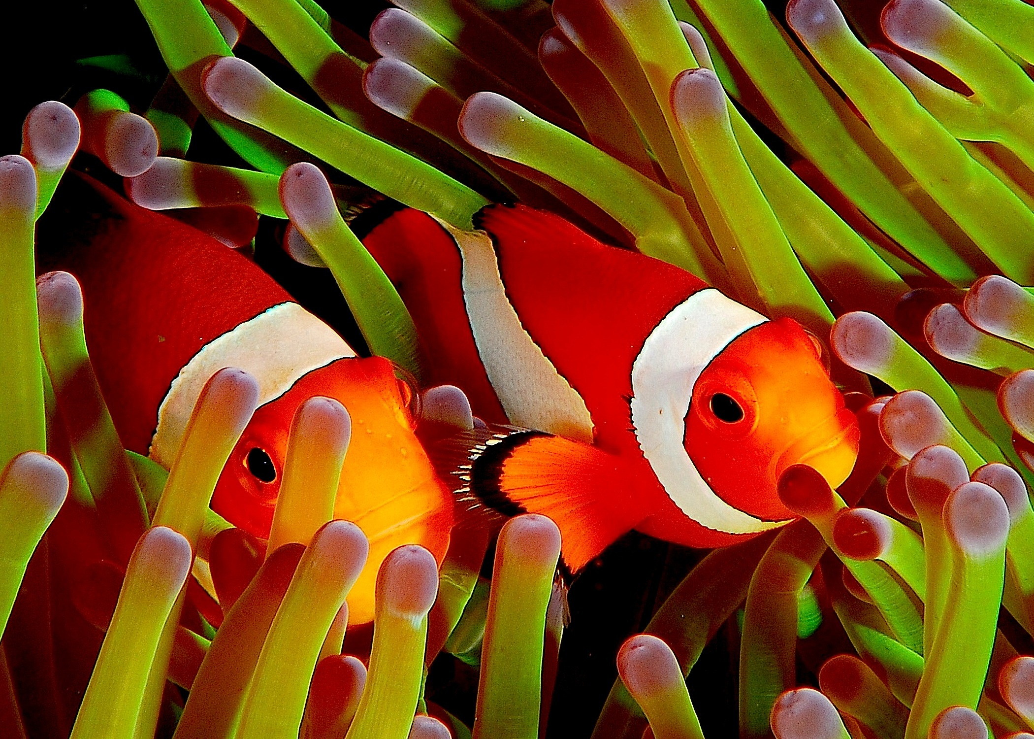 LARGER On Black Ocellaris clownfish, Amphiprion ocellaris. Some clown anemonefishes are brave. When divers close to them, papa anemonefish will swim out to defense. (Looks like very angery!!) But, oftenly they will hide.(papa will hide faster than their babies. haha~) Lovely!!